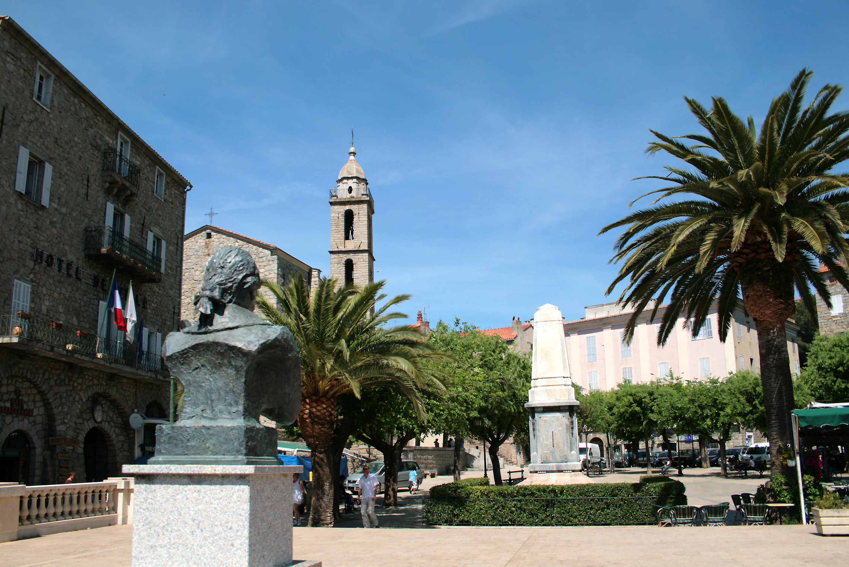 Sartène (Corse du Sud), France, place de la Libération - the Pasquale Paoli bust, the town hall, the war memorial and the St. Marie church. Walon: Sartène (Corse-du-Sud) - France, Place dol Libération – Li buste di Pasquale Paoli, li maîrîye, li monumint aux mwârts è l’èglîje Sinte-Marîye.